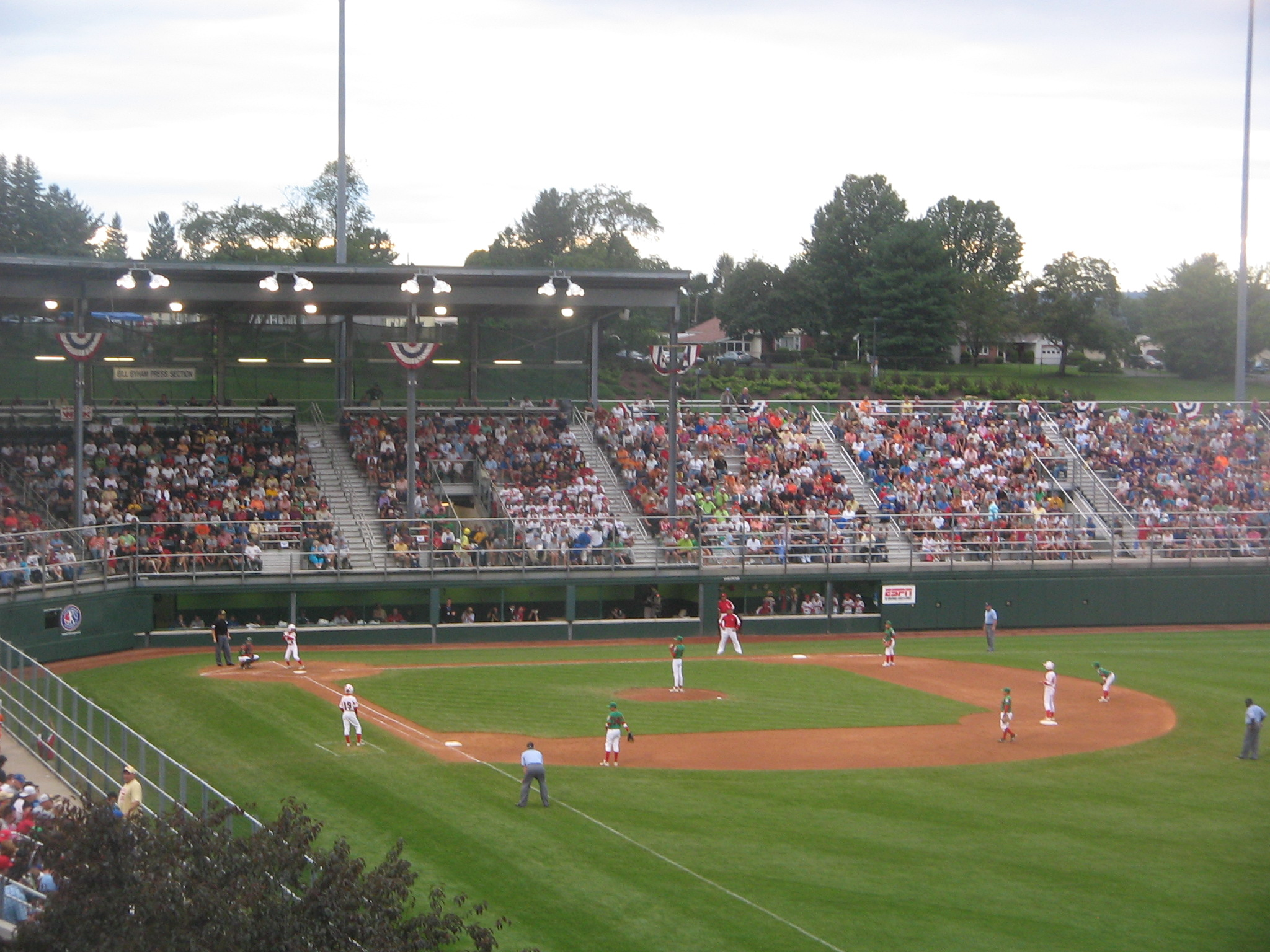 Japan vs. Mexico game at Little Leage Volunteer Stadium during the 2010 Little League World Series in South Williamsport, Lycoming County, Pennsylvania, USA